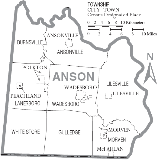 Map of Anson County, North Carolina, United States with township and municipal boundaries